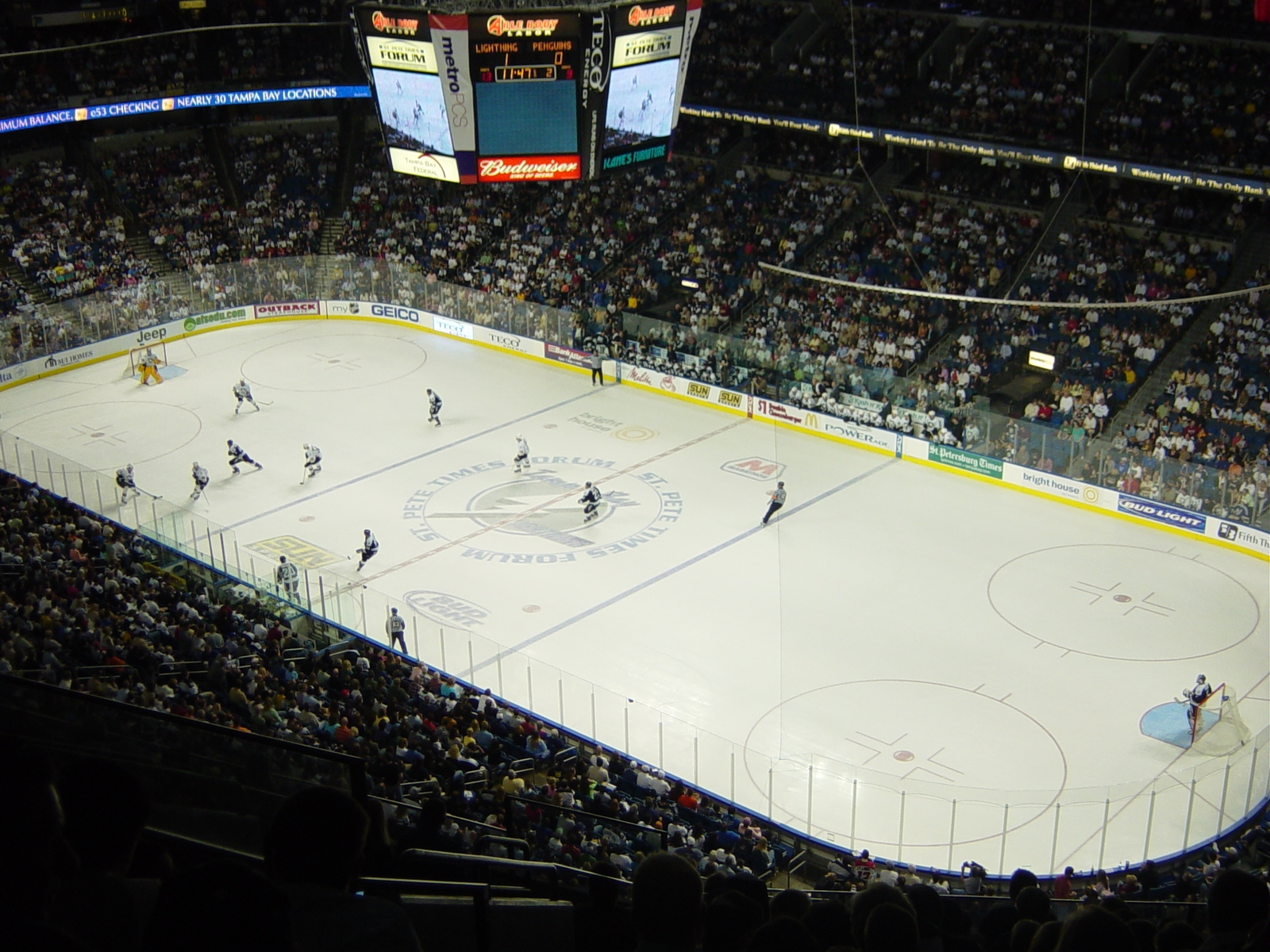 Taken by User:HappyHarvick2962 on April 8, en:2006.